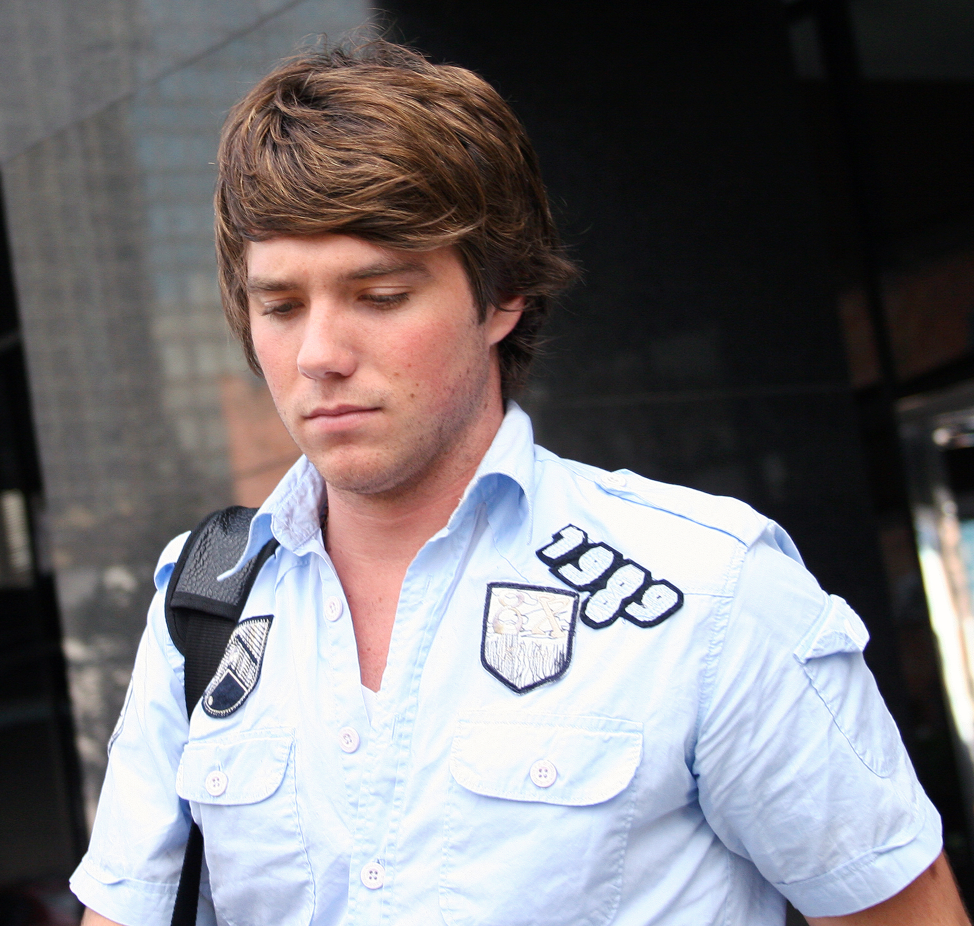 Thomas Fiss leaving the offices of WEZB (B97) radio station in New Orleans, Louisiana following a live appearance with Varsity Fanclub on October 6, 2008